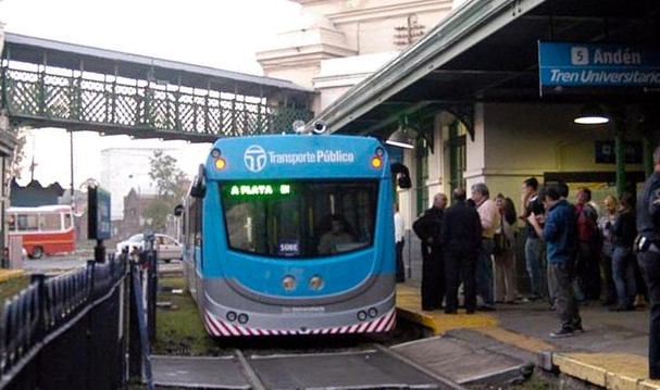 Tren Universitario of Roca Line stopped at platform 6 of La Plata station. Railcars were made by Argentine company "Tecnotren".